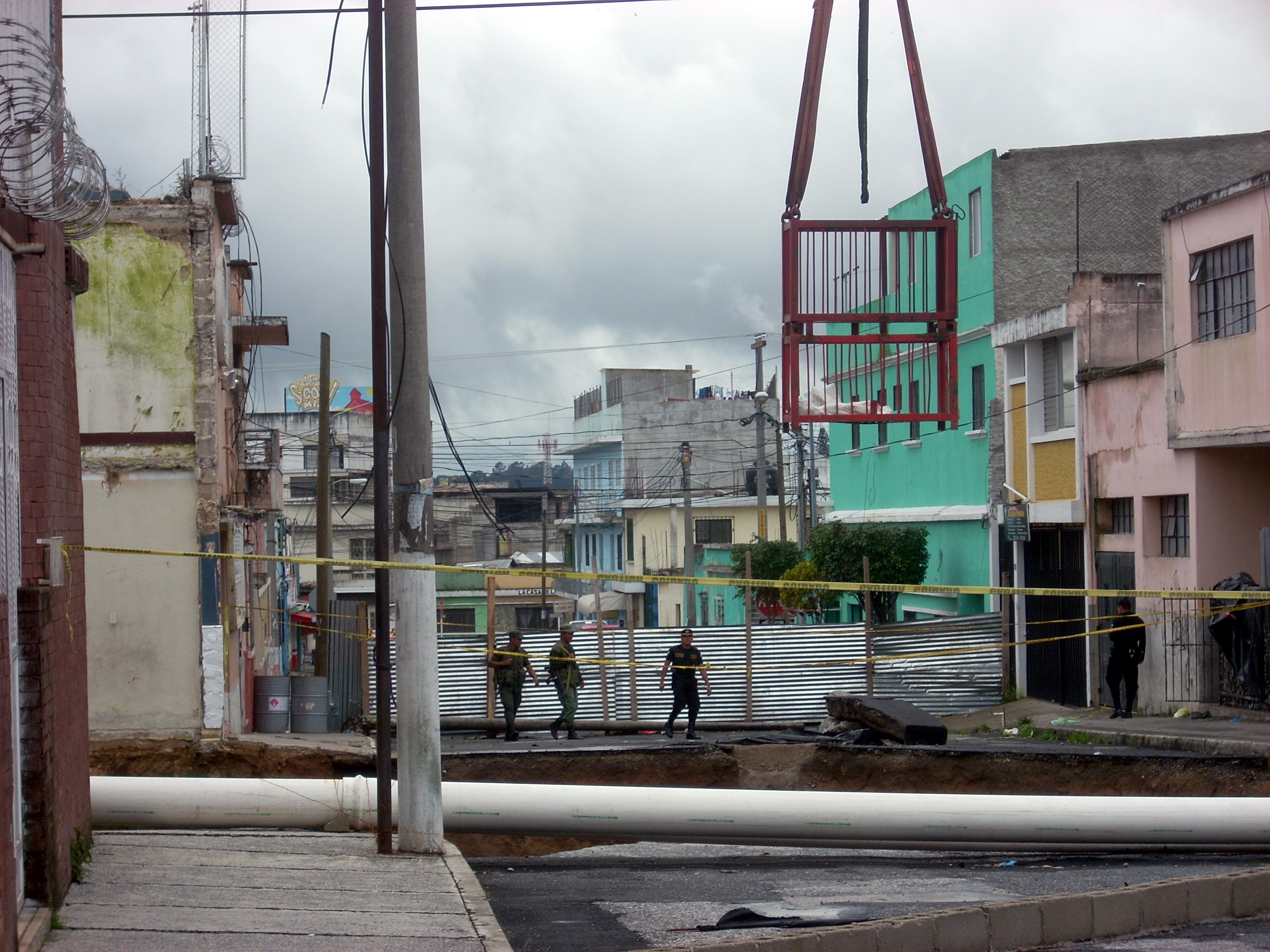 The 2010 sinkhole in Guatemala City. 11 avenida A and 6 calle, Zona 2.